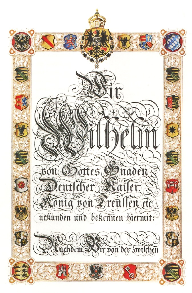 Title-page of the German instrument of ratification to the final act of the Congo conference from the 26th of February, 1885 in Berlin (Congo contract). The border is decorated with the coats of arms of the federal states at that time of the German empire. (see below)